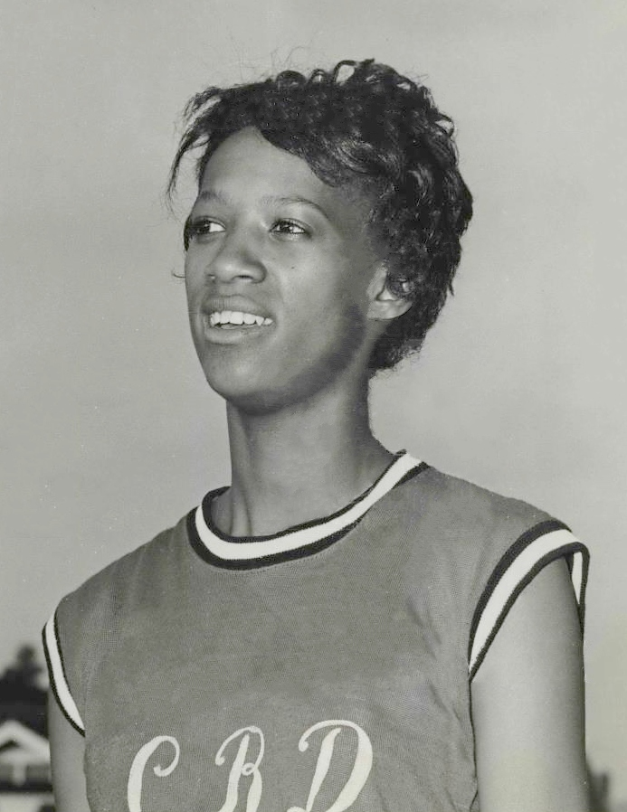 1967 Press Photo High Jump Champion Eleanor Montgomery - cvb56420